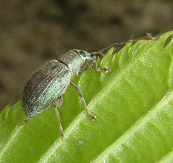 Broad nosed weevil, Cyrtepistomus castaneus. New River Gorge Bridge, Fayette County, West Virginia, USA.